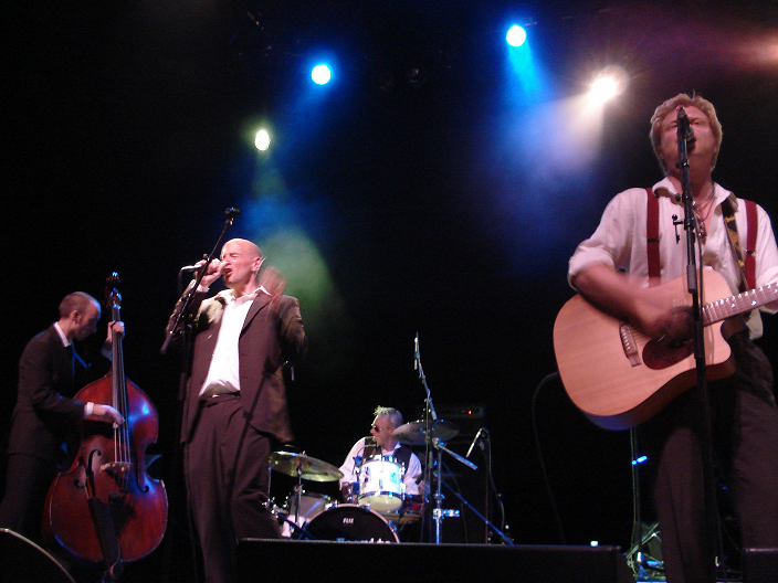 Hey Negrita at the Shepherds Bush Empire in London, 2008